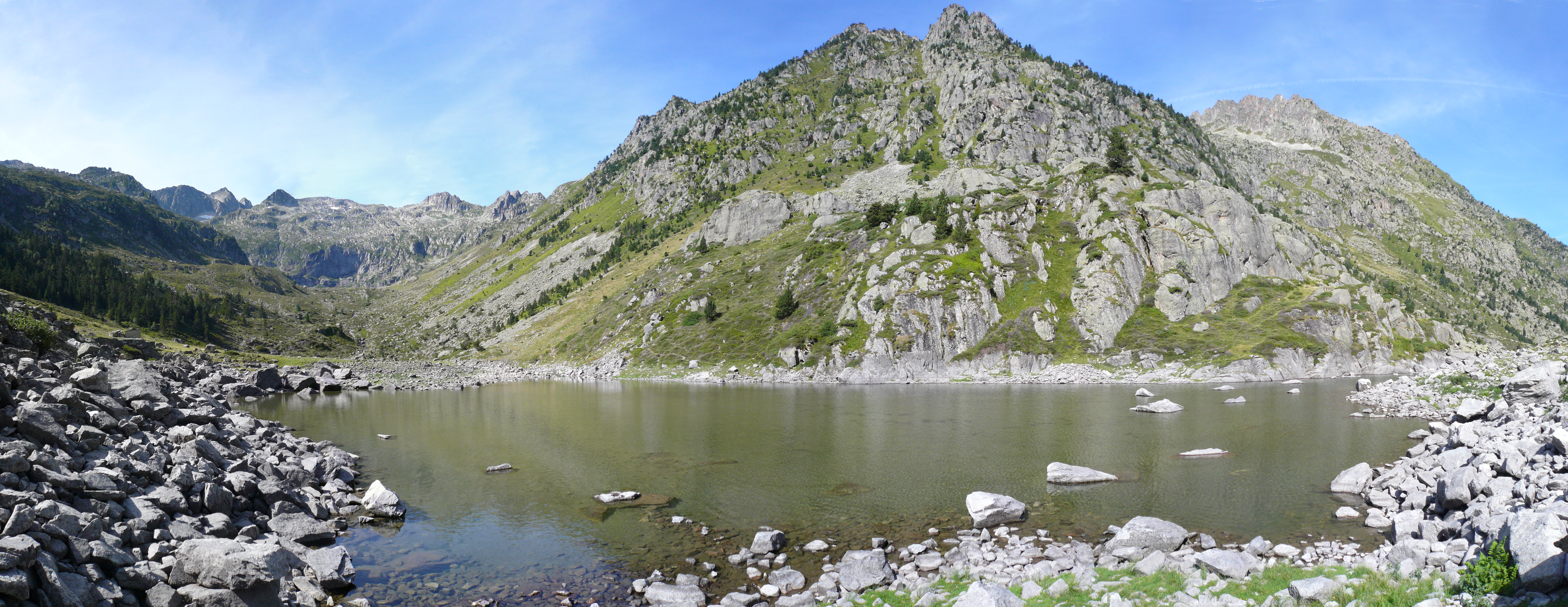 Plaa de Prat Lake